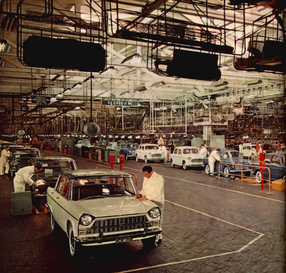 Workers in Fiat factories, Turin